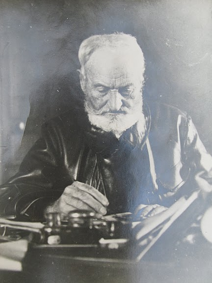 Photo of Albert Seibel before 1936.